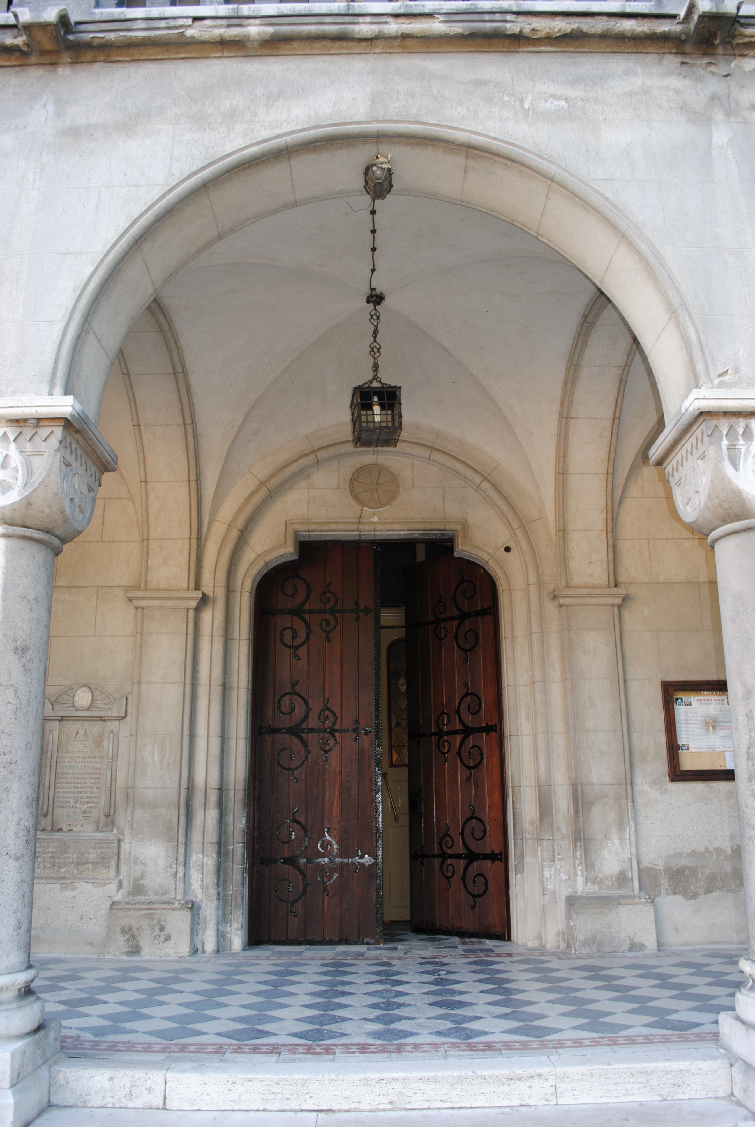 For the purpose of networking and strengthening cooperation between the chapters of the Wikimedia Foundation, Wikimedia Serbia and Wikimedia Hungary held a Wiki Camp in Palic and Szeged from 22nd to 24th of August in 2014 at Palic and Szeged as a three-day event. During these three days, participants from Serbia and Hungary have had workshops of editing Wikipedia, photo tour and creative workshop solving case studies.